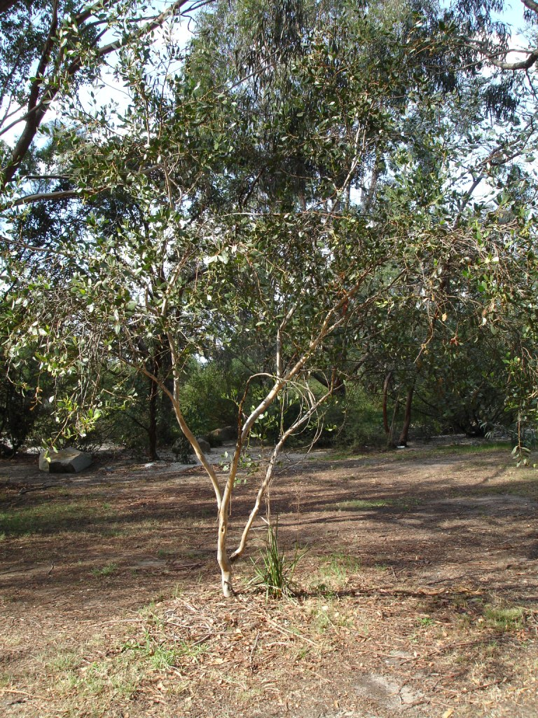 Photographed at Maranoa Gardens, Melbourne, Victoria, Australia by HelloMojo 08:55, 6 April 2007 (UTC)